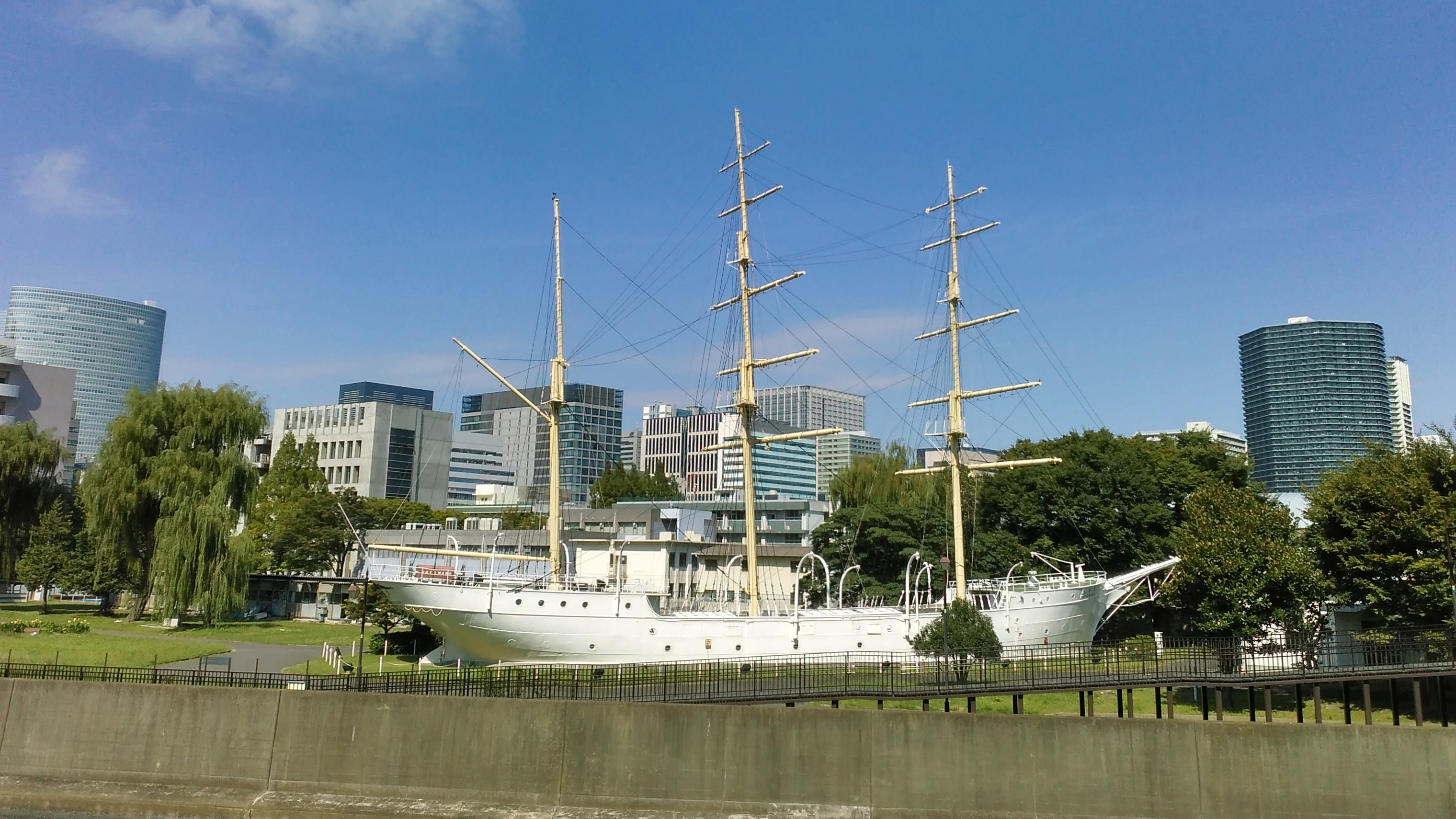 Un'yō-Maru, a former school ship of Tokyo University of Marine Science and Technology (TUMSAT), located in Minato-ku, Tokyo, Japan.